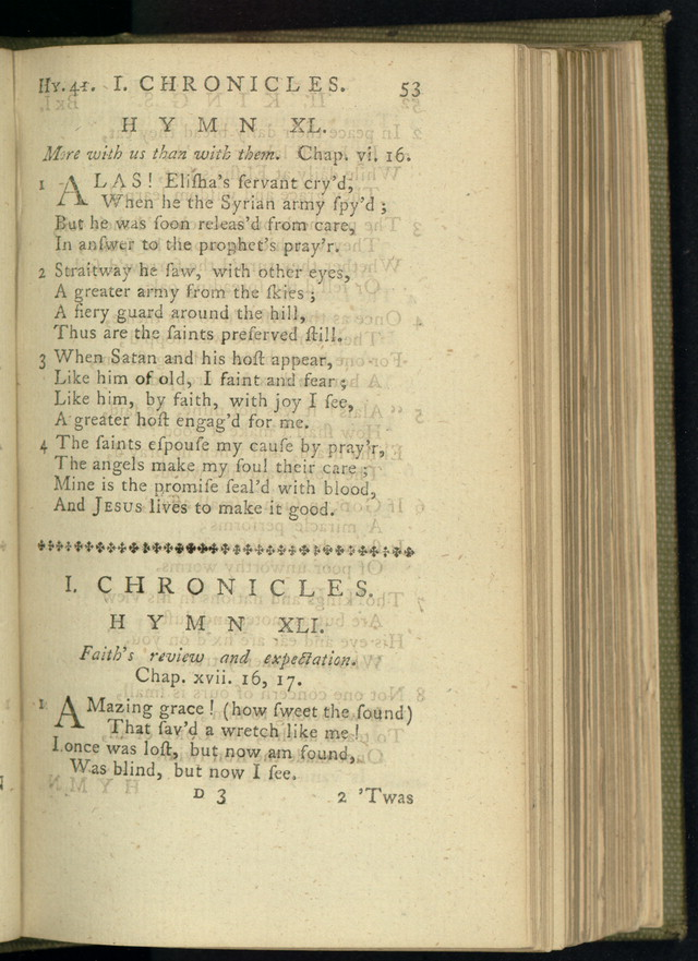 Page 53 in Olney Hymns, the verses that would become known as "Amazing Grace"